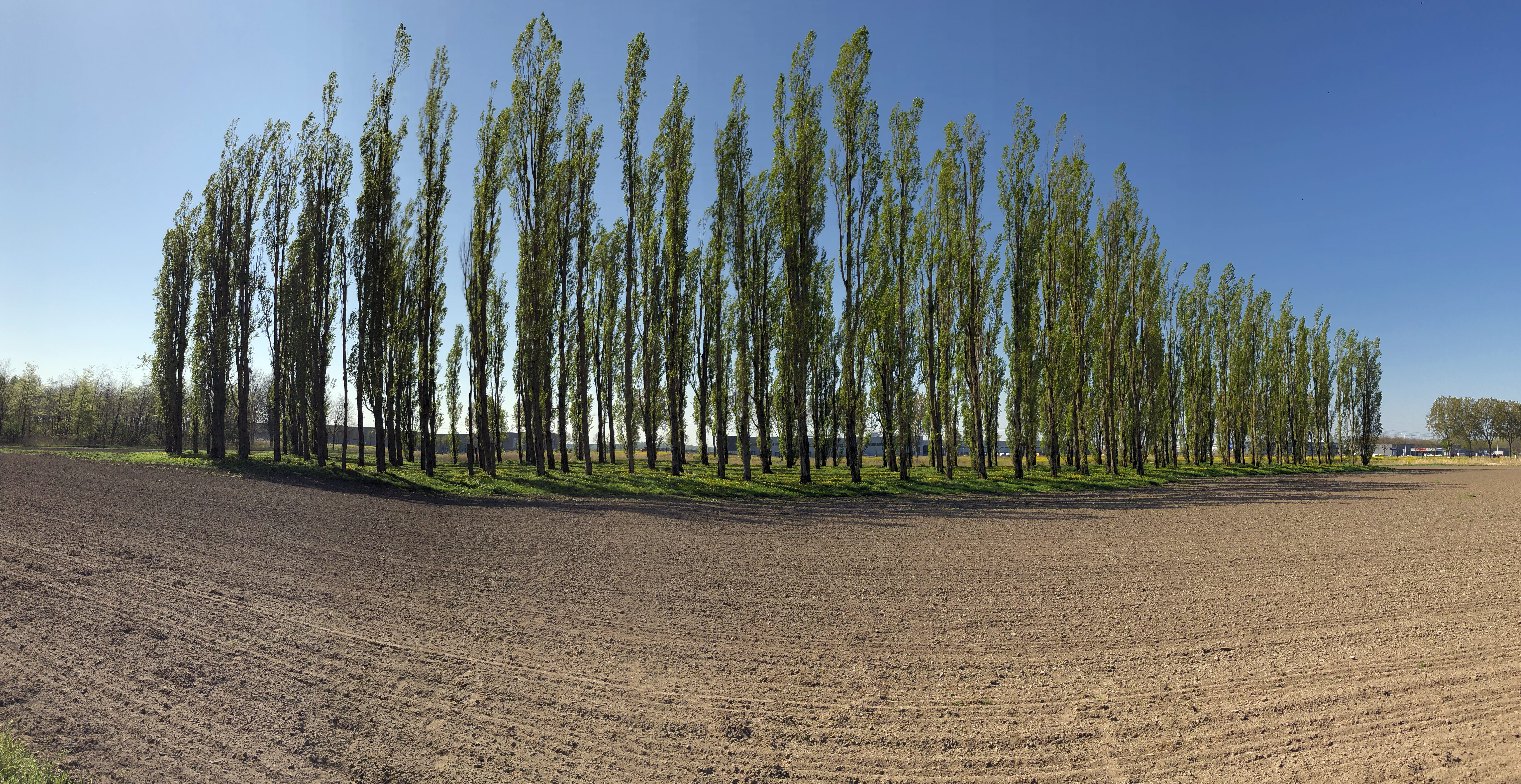 The Green Cathedral in Almere, the Netherlands, a piece of land art.